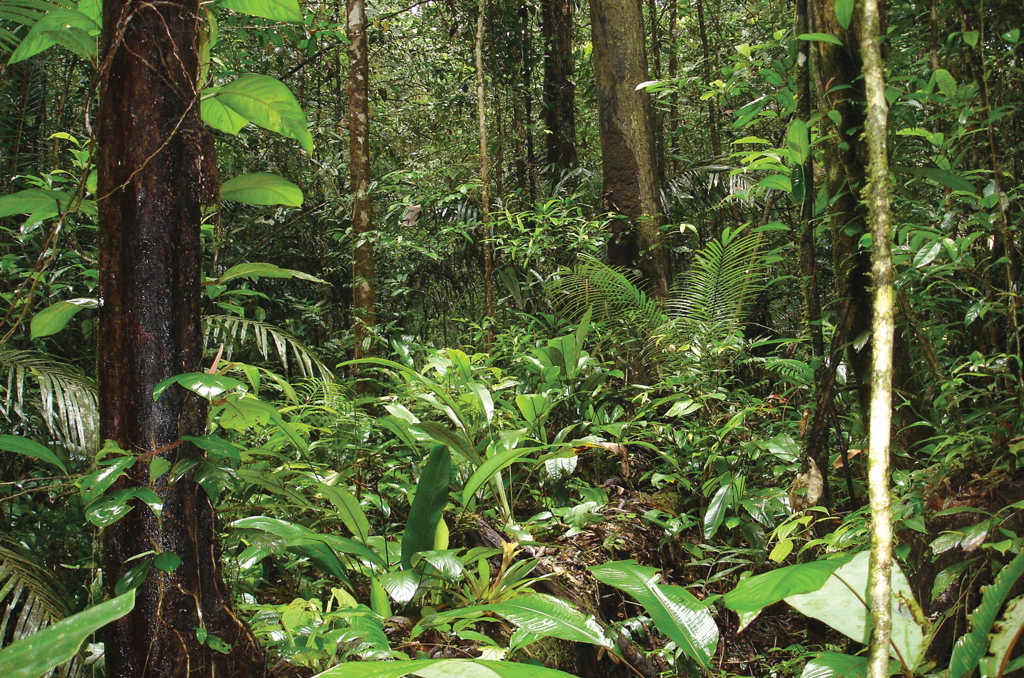 Type locality of Microcaecilia dermatophaga: Forest close to the Mana River at Angoulême, French Guiana.